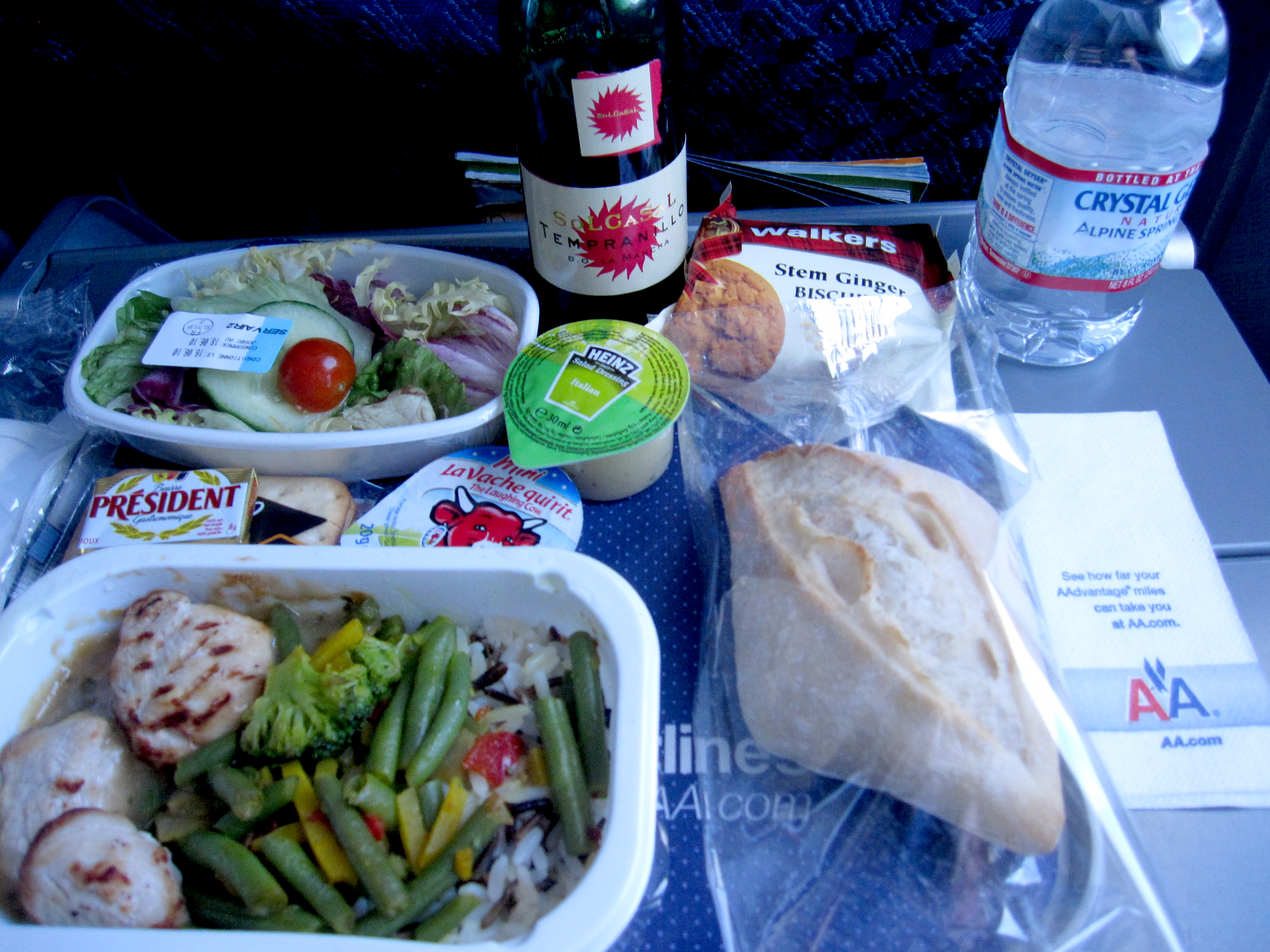 American Airlines meal between CDG-JFK in June 2010.